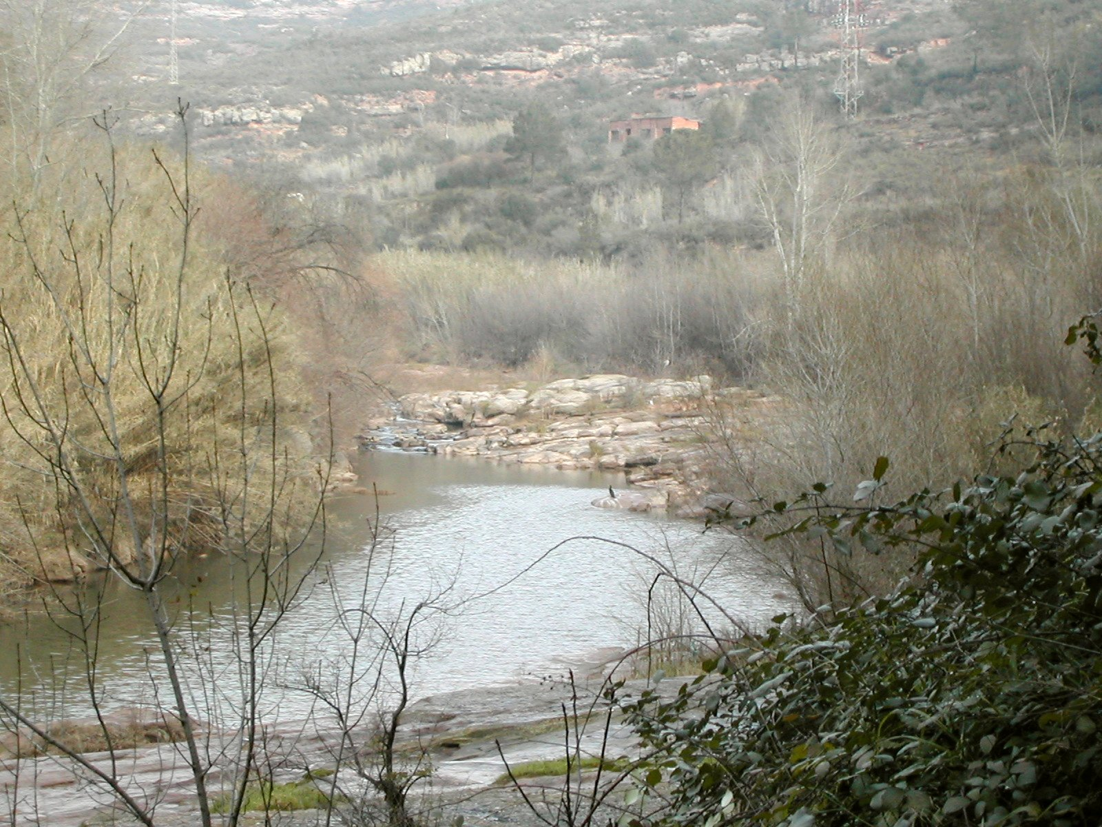 Llogregat river (Monistrol de Montserrat, Spain) Author: David Gaya